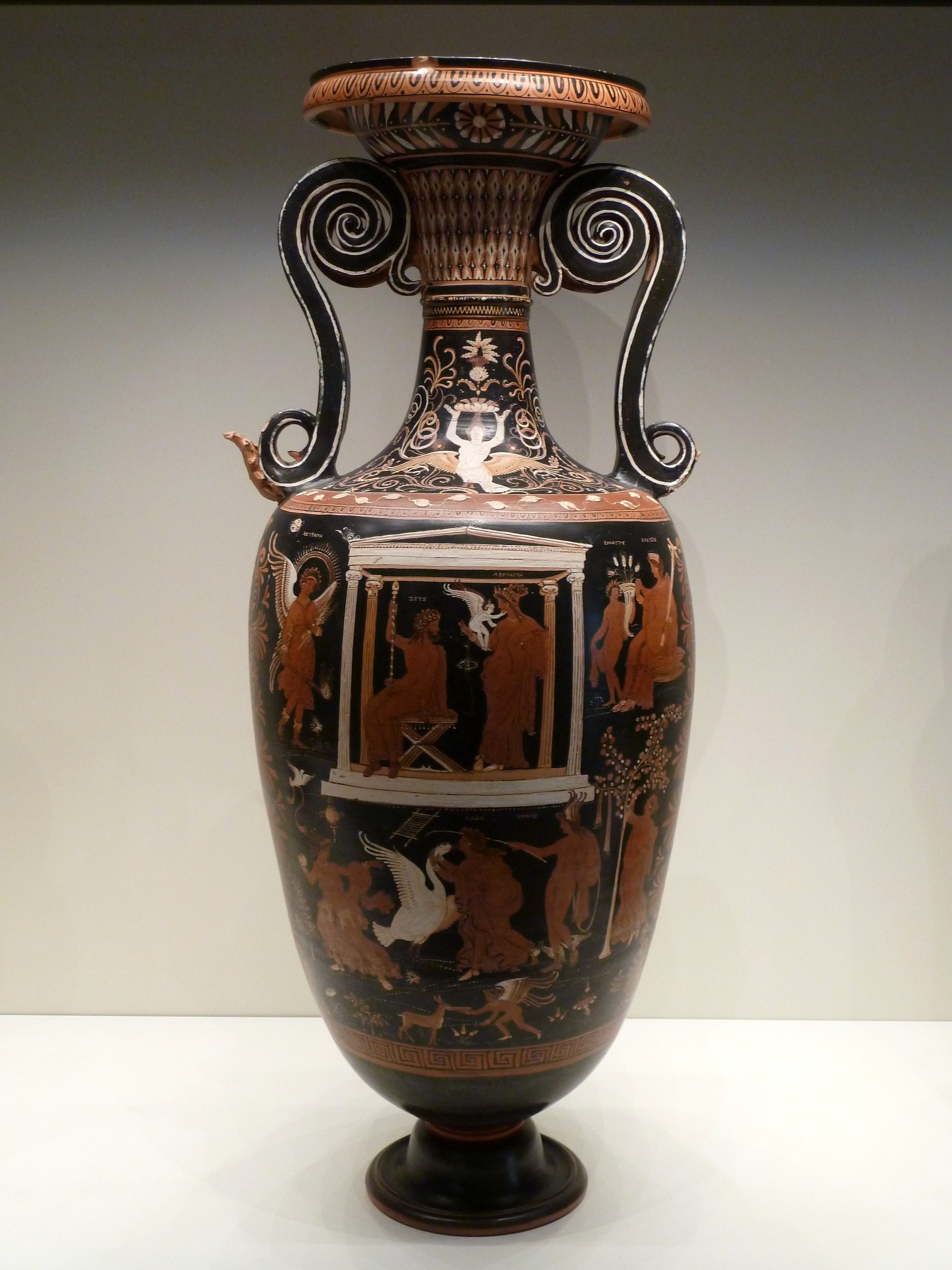 Vessel with Leda and the Swan (Greek, Apulia 330 BC) - Possibly a funerary vessel